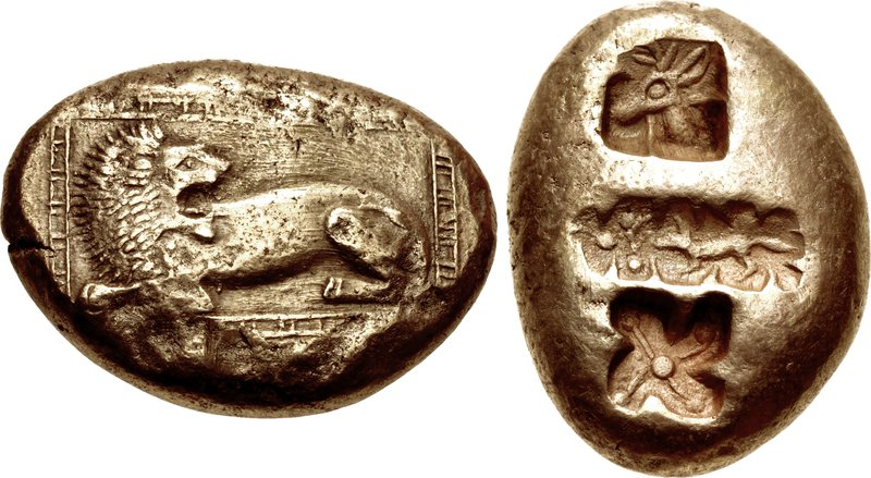 IONIA, Miletos. Circa 600-550 BC